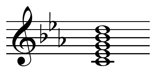 Minor ninth chord on C. Created by Hyacinth (talk) 10:31, 29 May 2011 (UTC) using Sibelius 5. See: File:Minor_ninth_chord_on_C.mid